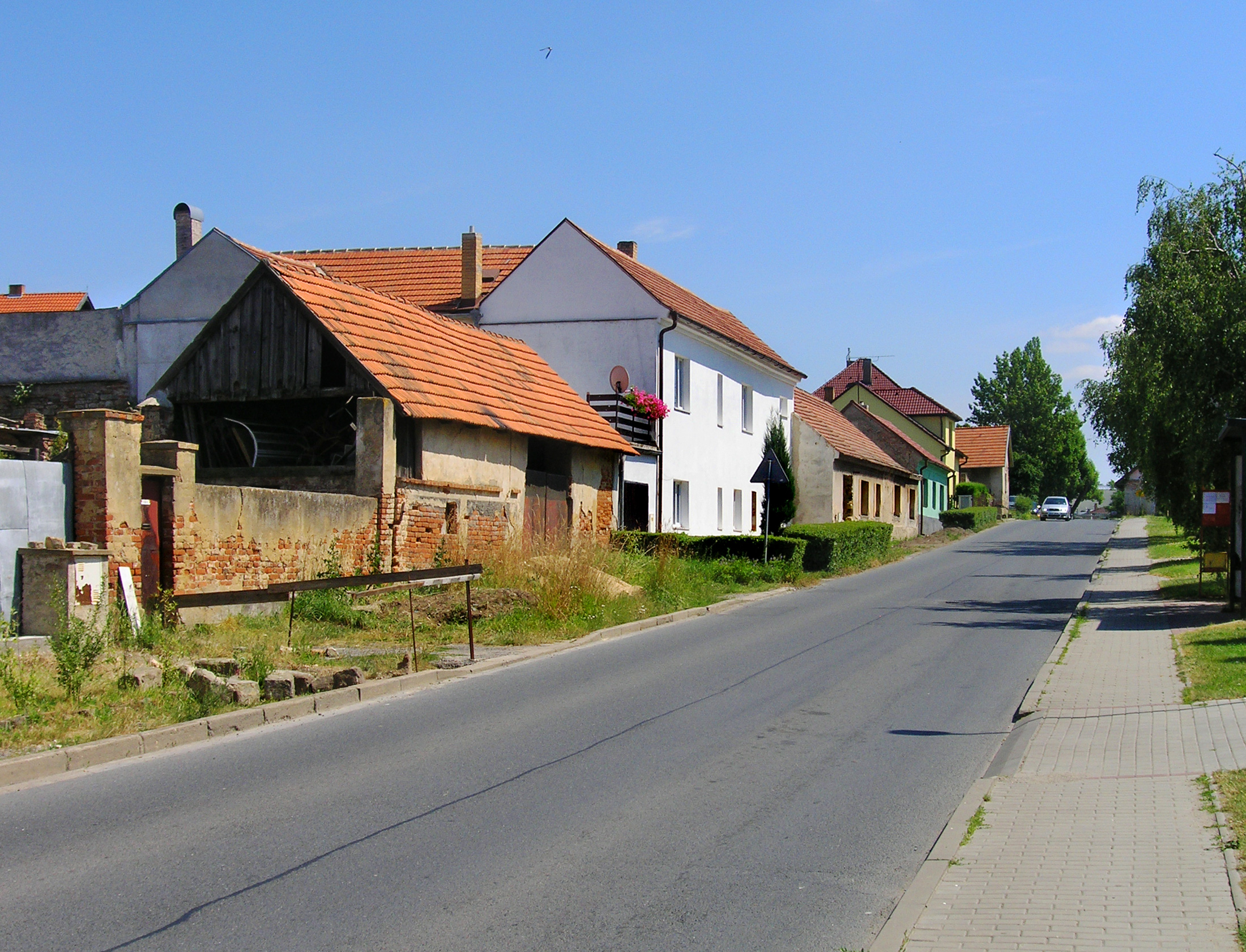 Ligasova street in south part of Radonice, Czech Republic